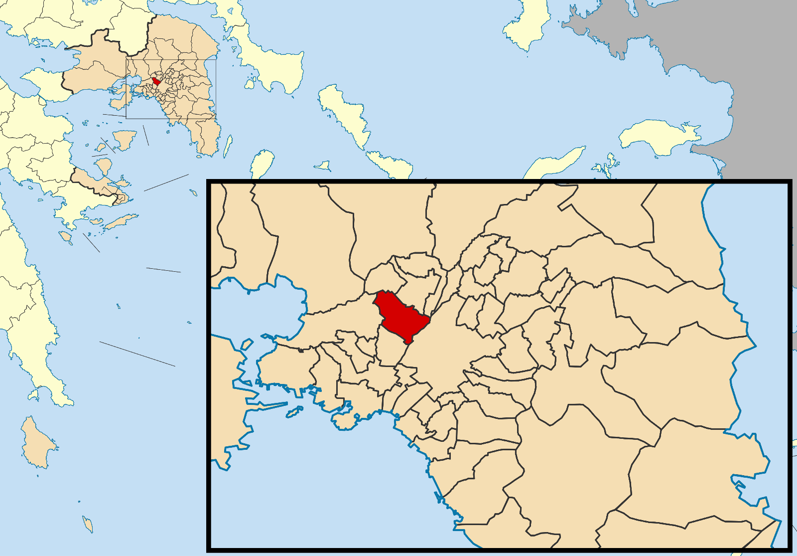 Locator map for Peristeri municipality in Greek region Attica (2011)